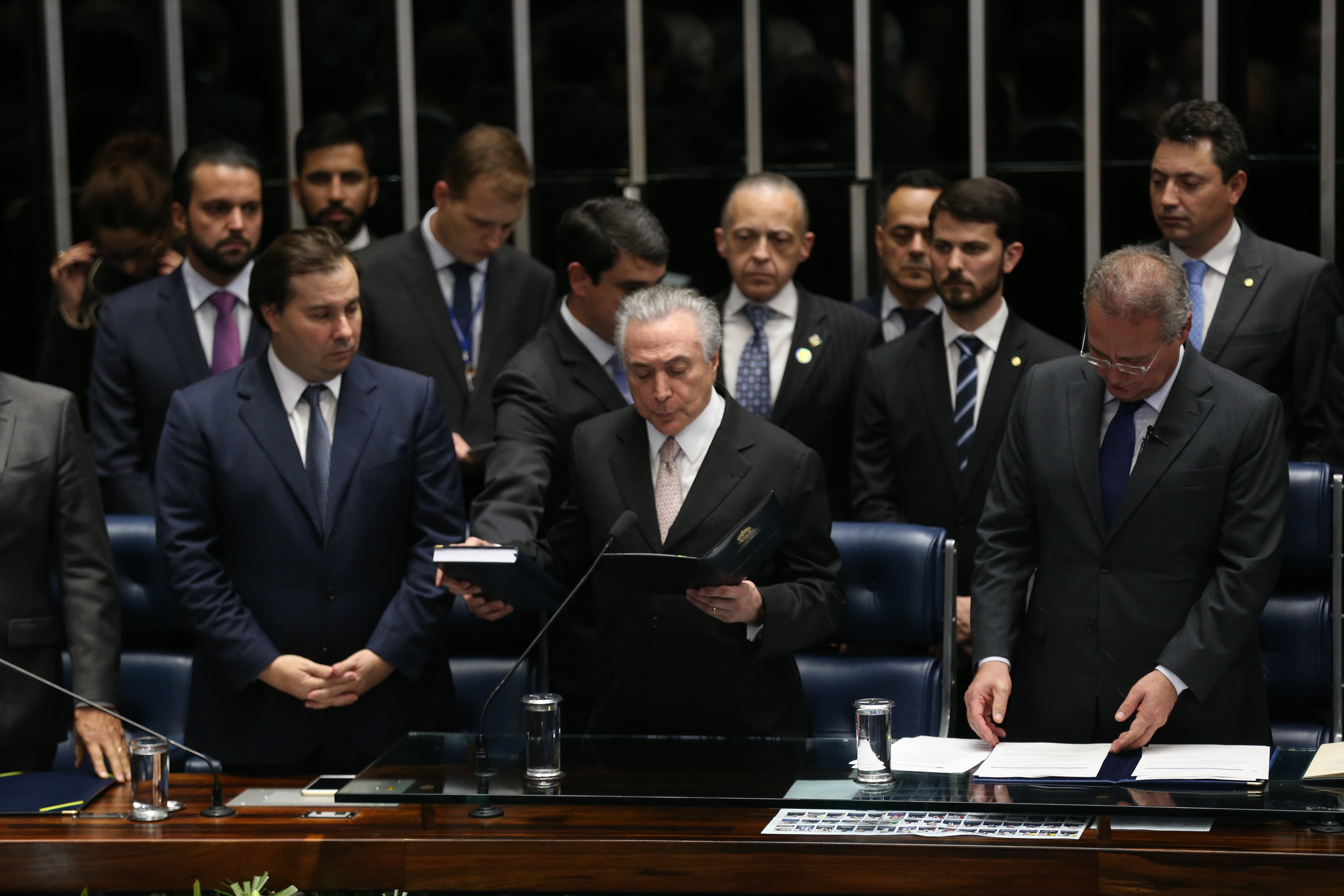 Brasília - Michel Temer toma posse como presidente da República em solenidade no Congresso Nacional (Fabio Rodrigues Pozzebom/Agência Brasil)